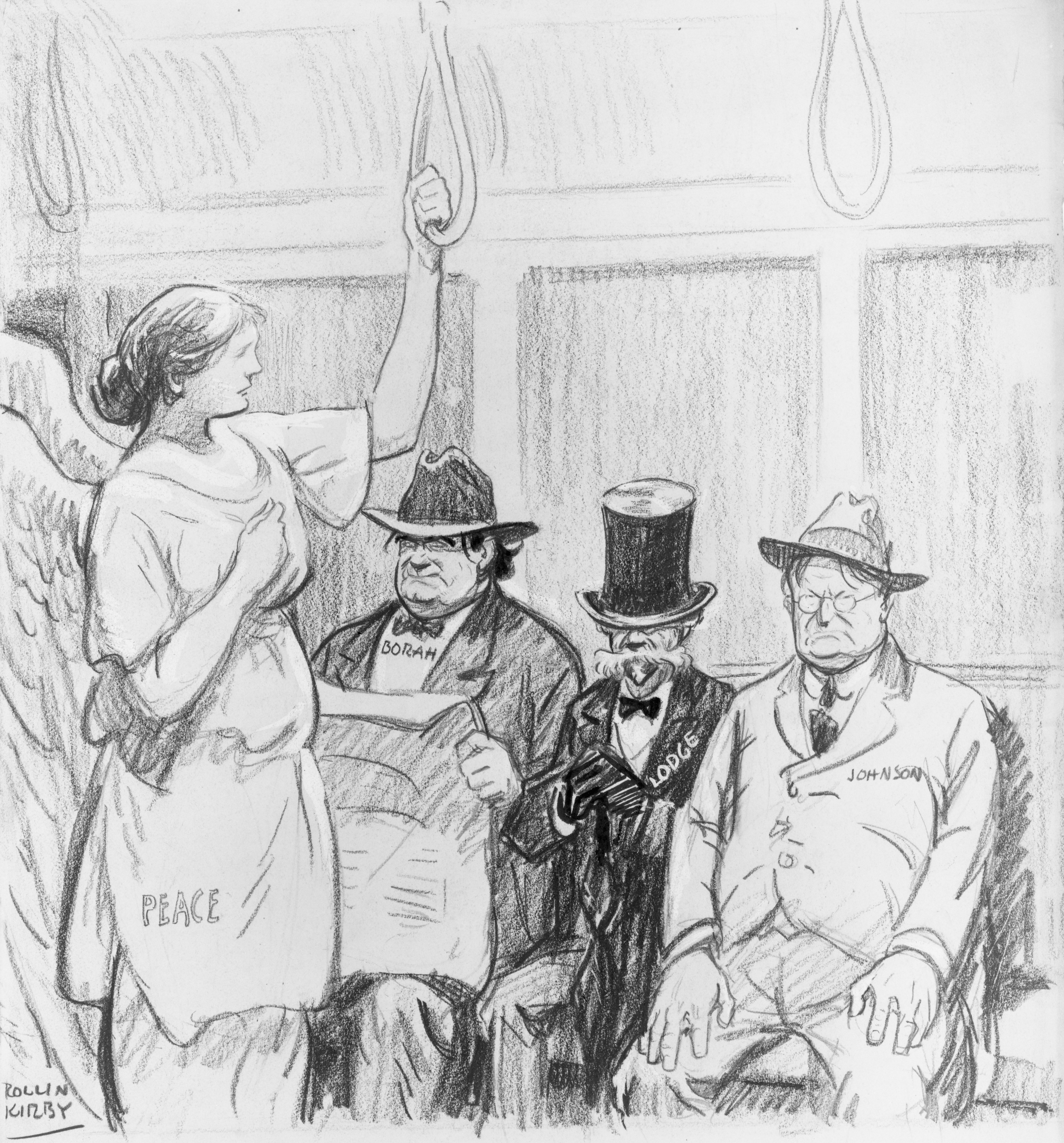 Cartoon shows the figure of Peace as a pretty woman and angel, standing in the aisle of a train or bus, while Senators Borah, Lodge, and Johnson occupy the seats. The cartoon refers to the successful efforts of the Republican isolationists after World War I to block Senate ratification of the Treaty of Versailles establishing the League of Nations. The cartoonist suggests that the failure of the United States to join the League is a blow to the prospects for peace.